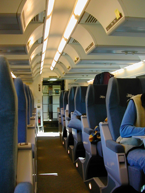 'Comfort' coach class on board VIA Rail Canada's 'Ocean' train between Montréal, Québec and Halifax, Nova Scotia, May 2006. Photograph by James Brown.